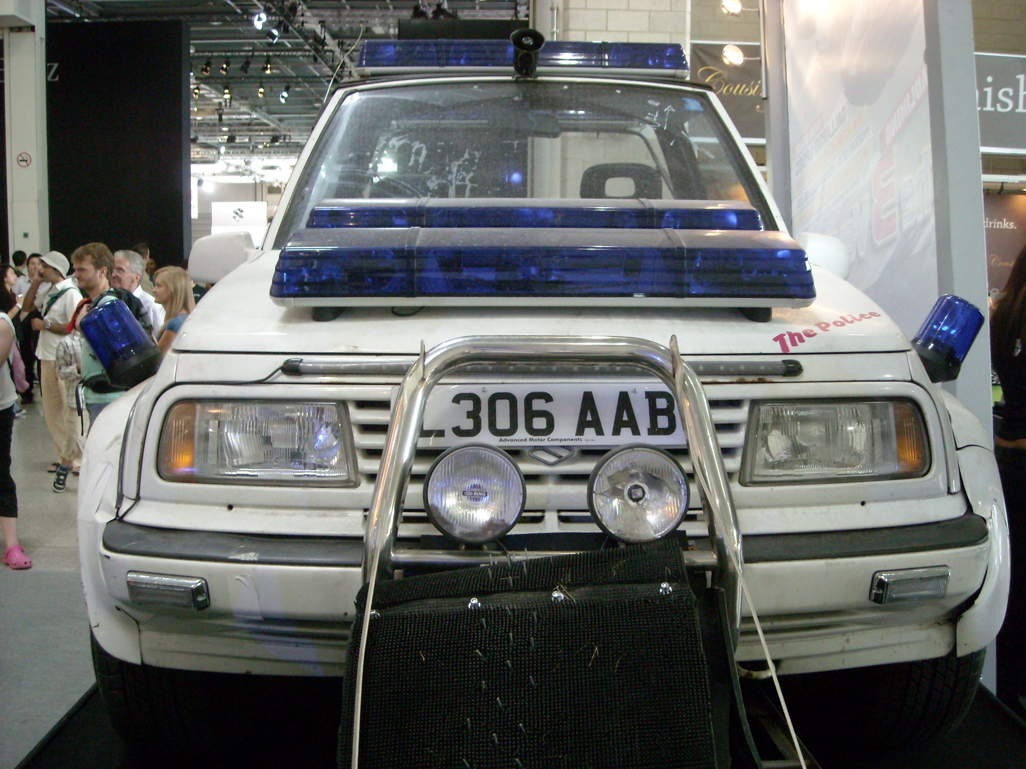 Richard Hammond's Top Gear challenge to make a Police Car using a Suzuki Vitara